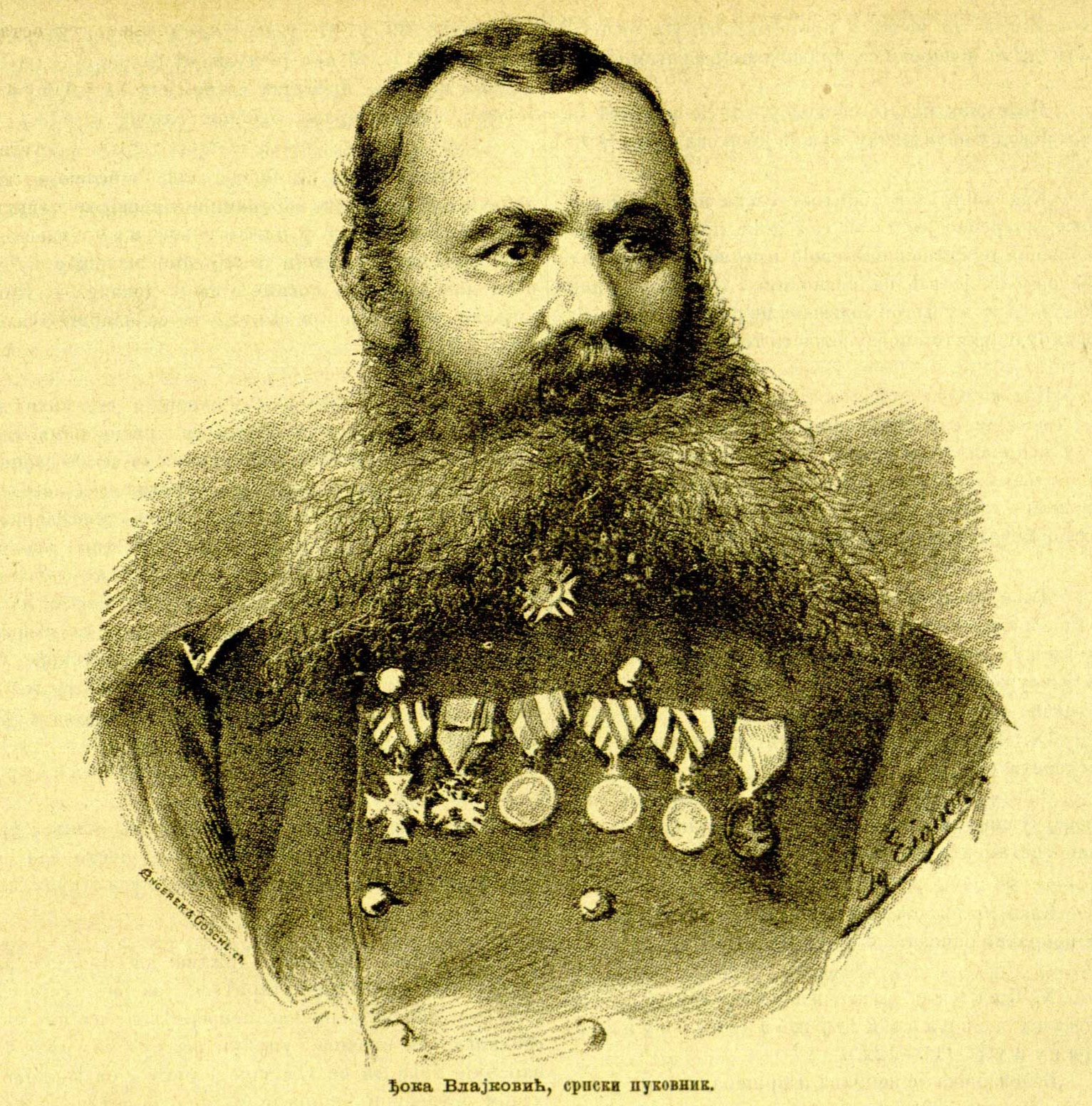 Đoka Vlajković, Serbian colonel